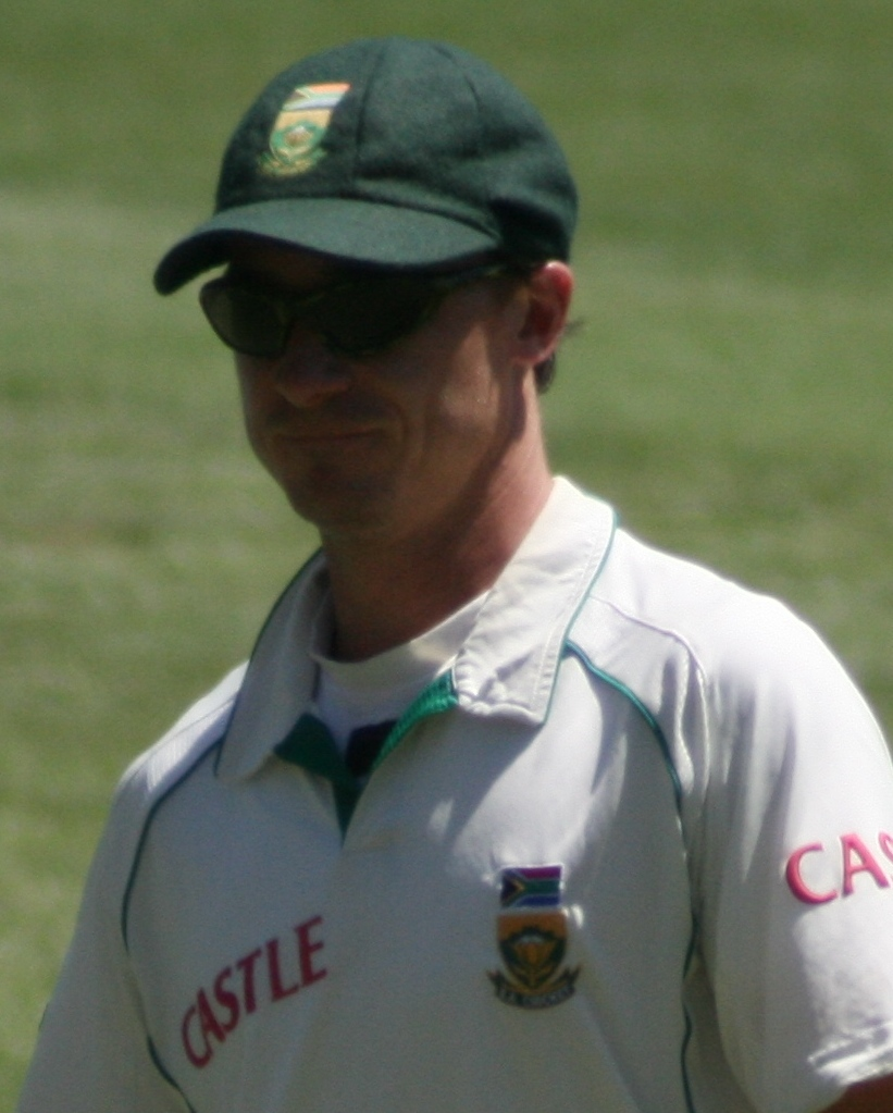 A cricket shot from Privatemusings, taken at the third day of the SCG Test between Australia and South Africa. Dale Steyn